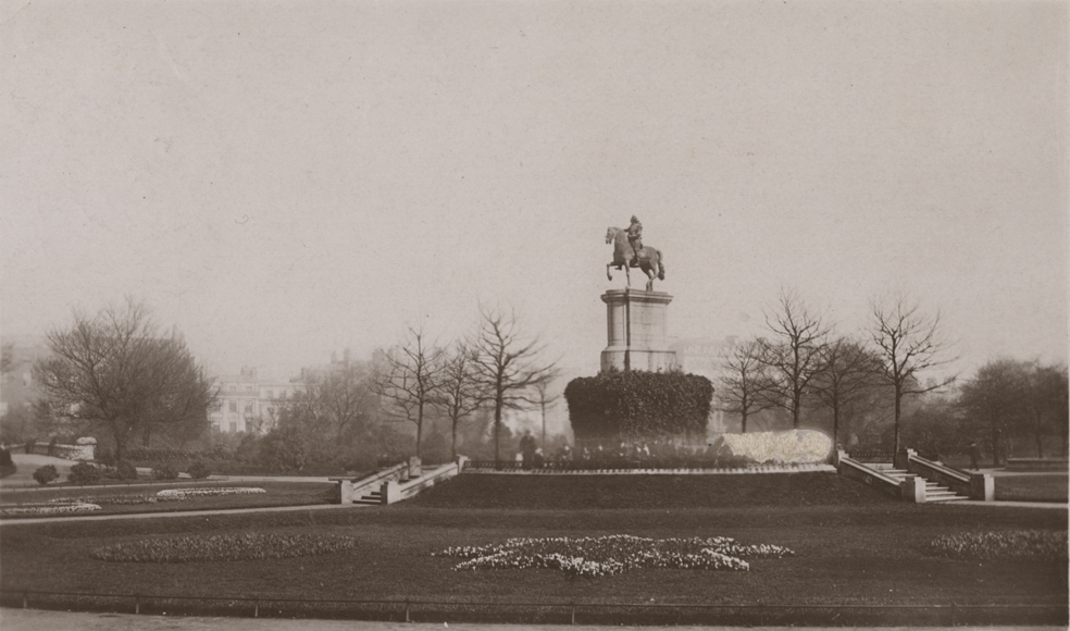 Equestrian statue if King George II (1758) in the then private St Stephen's Green in Dublin